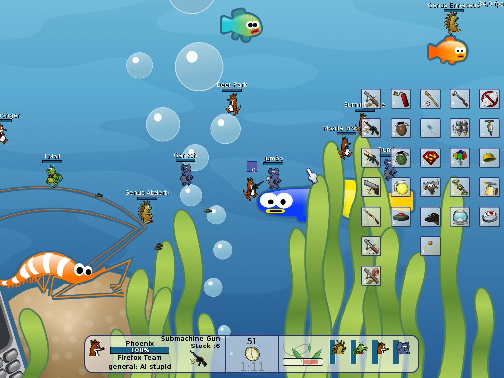 Wormux 0.79